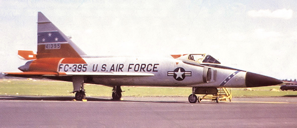 37th Fighter-Interceptor Squadron Convair F-102A-35-CO Delta Dagger 54-1395, about 1958. Aircraft retired to MASDC 1970 Converted to QF-102A, later to PQM-102B Transferred to 82d Tactical Aerial Targets Squadron and expended as a target during early 1980s